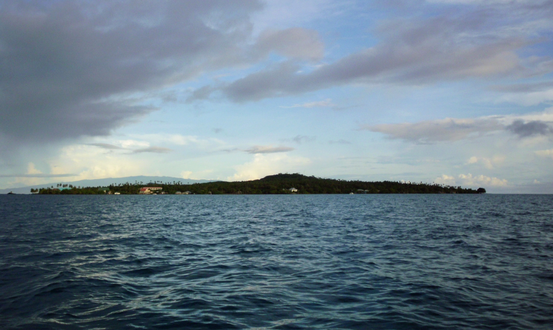 Samoa, a small island